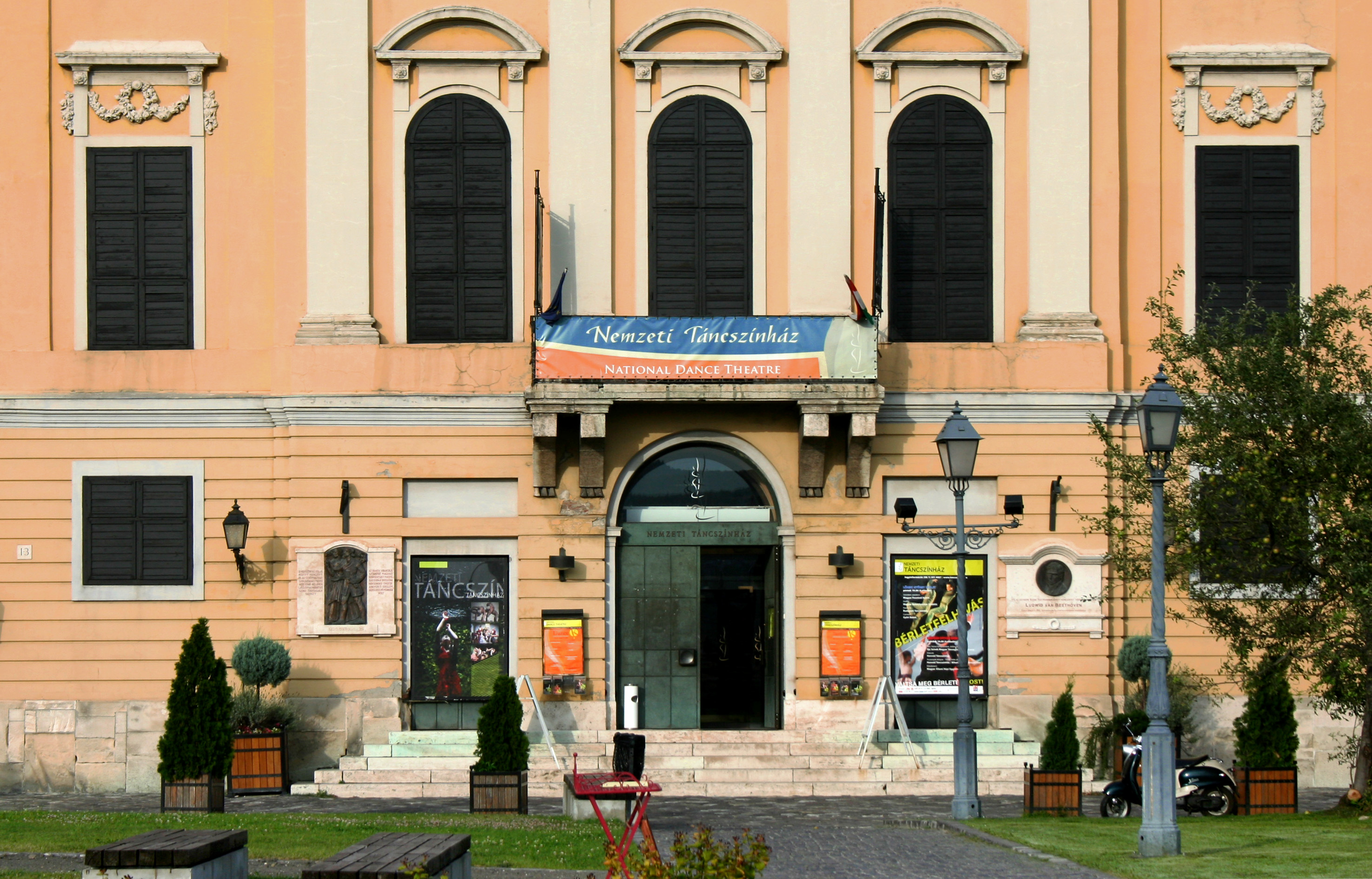 Castle Theater - Burgtheater - Budapest, Varszinhaz (in Hungarian) Entrance, recovered: 1787. Now: Dance Theatre